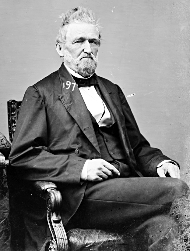 Andrew King (representative), US Representative from Missouri